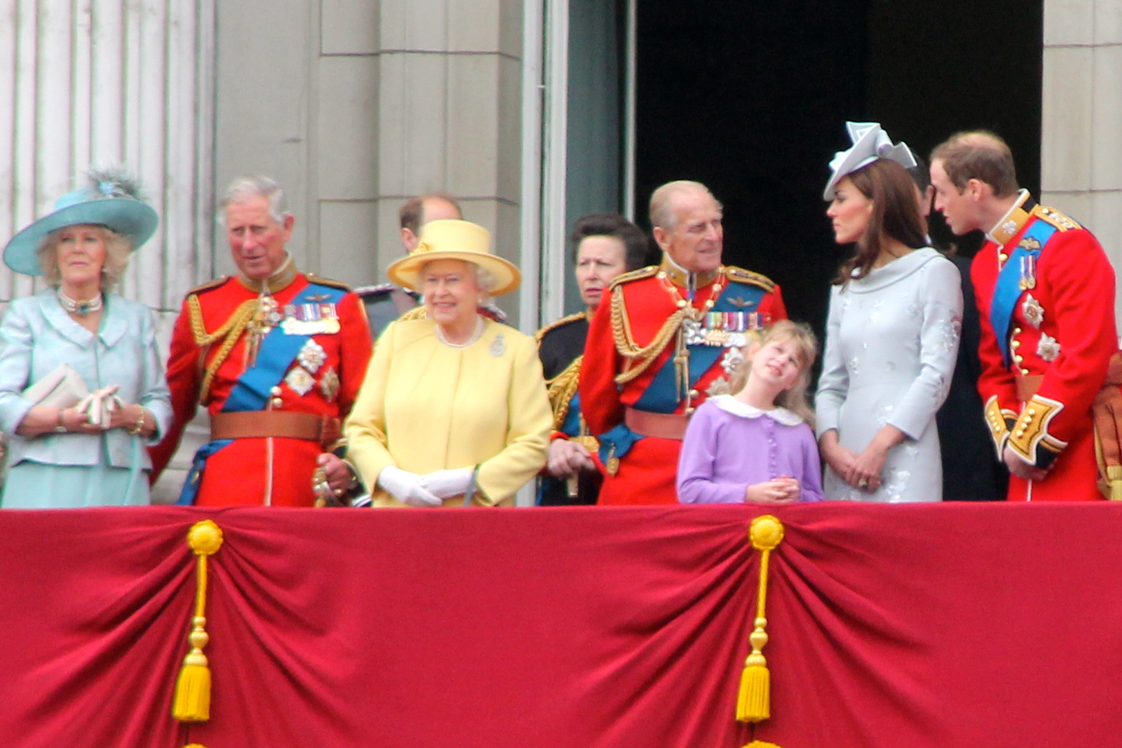 English Royal Family, June 2012